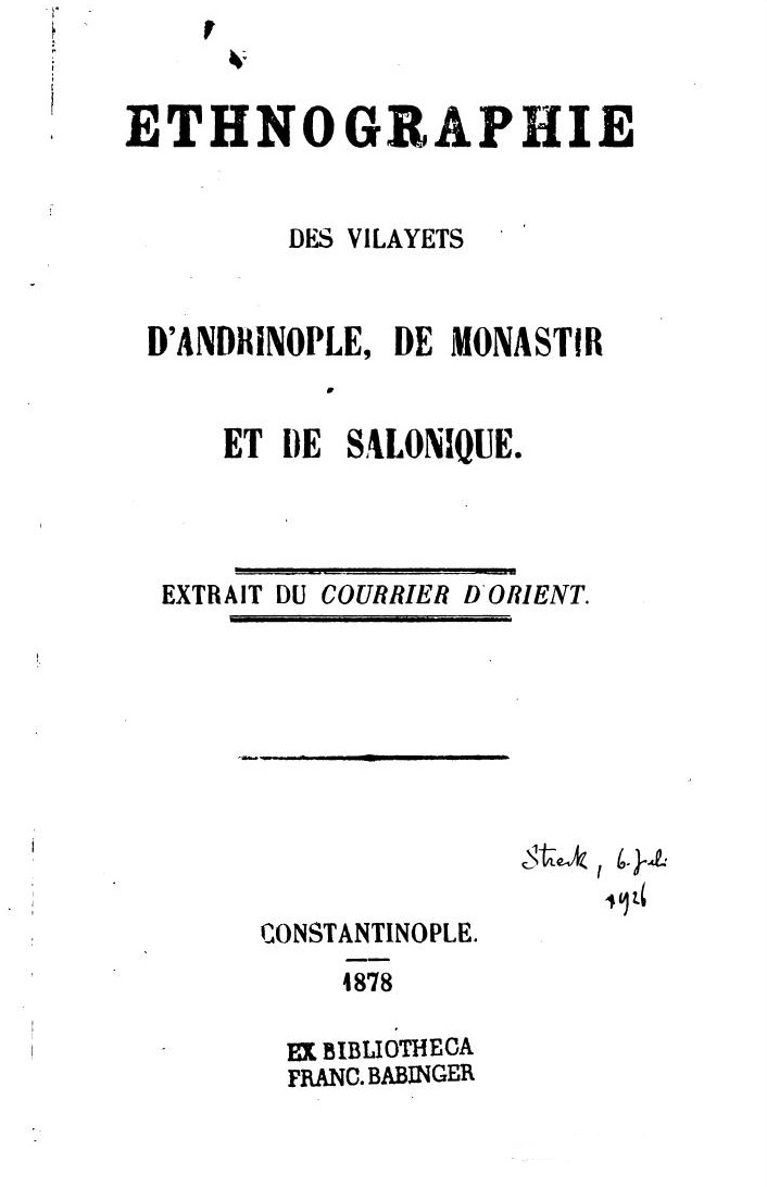 The cover of the work of the Bulgarian Bishop of Stara Zagora Metodi Kusev "Ethnographie des Vilayets d'Andrinople, de Monastir et de Salonique"